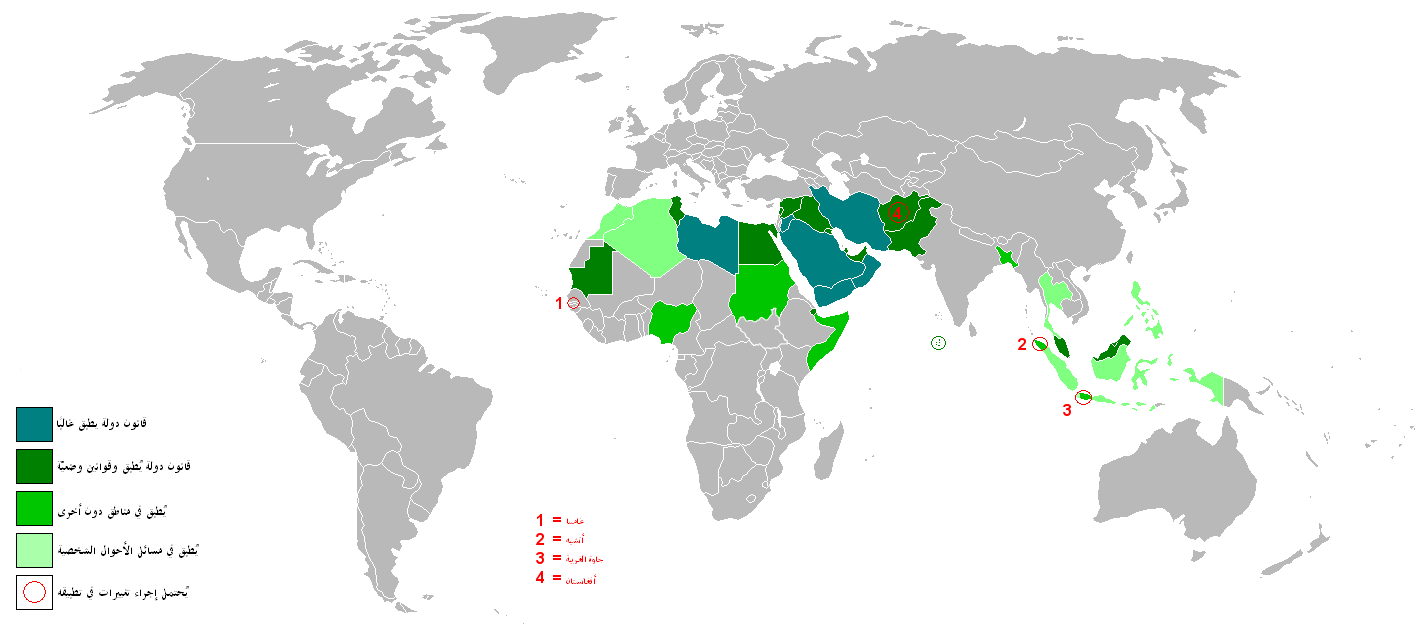 Countries with Sharia rule in Arabic.